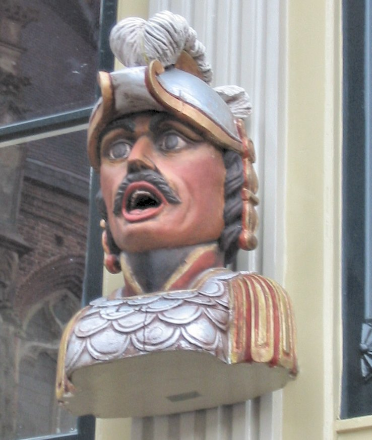 Sign for farmacologist Amersfoort, The Netherlands, picture by User:Ellywa